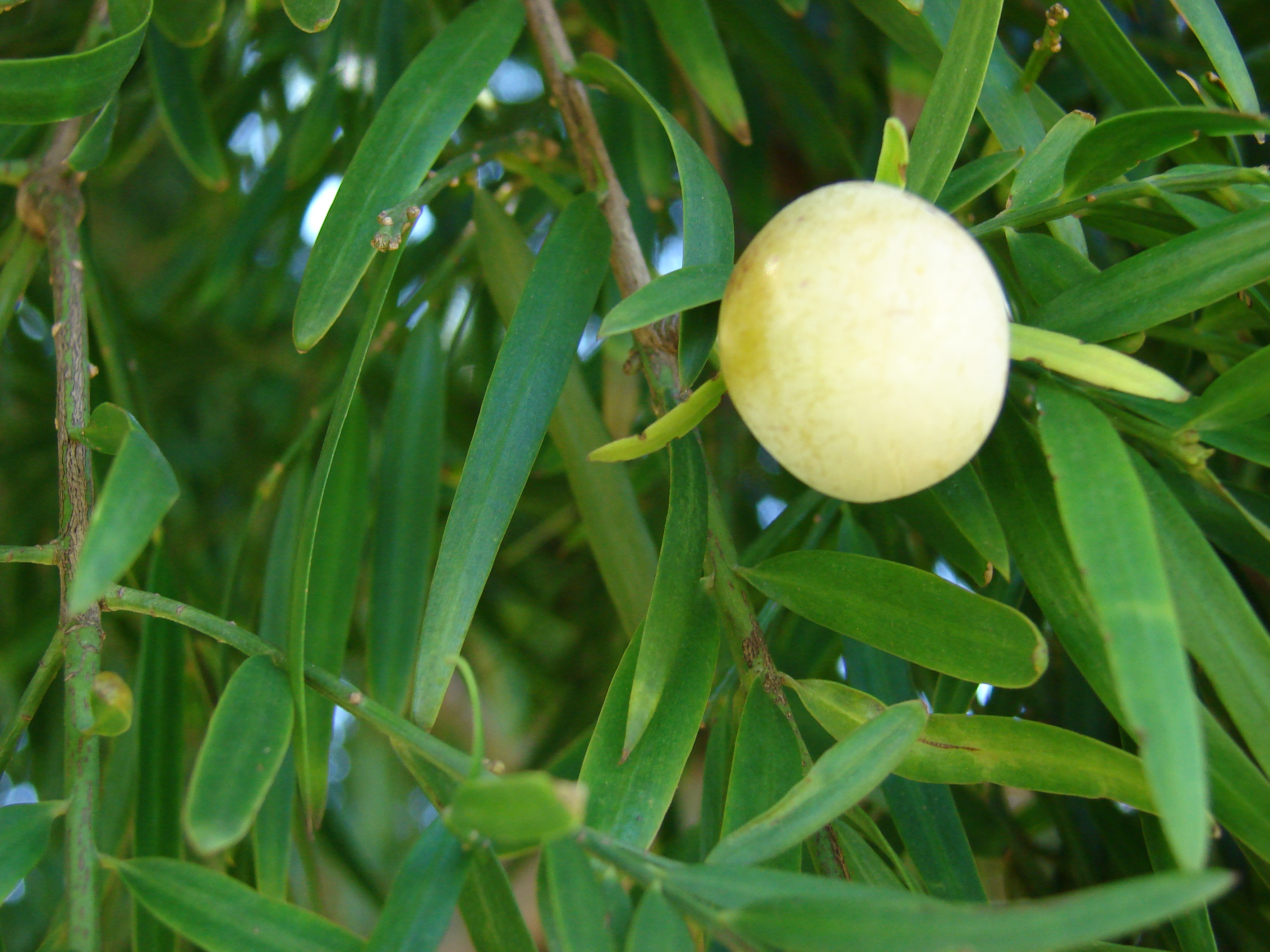 Afrocarpus gracilior (leaves and cones). Location: Maui, Eddie Tam Makawao